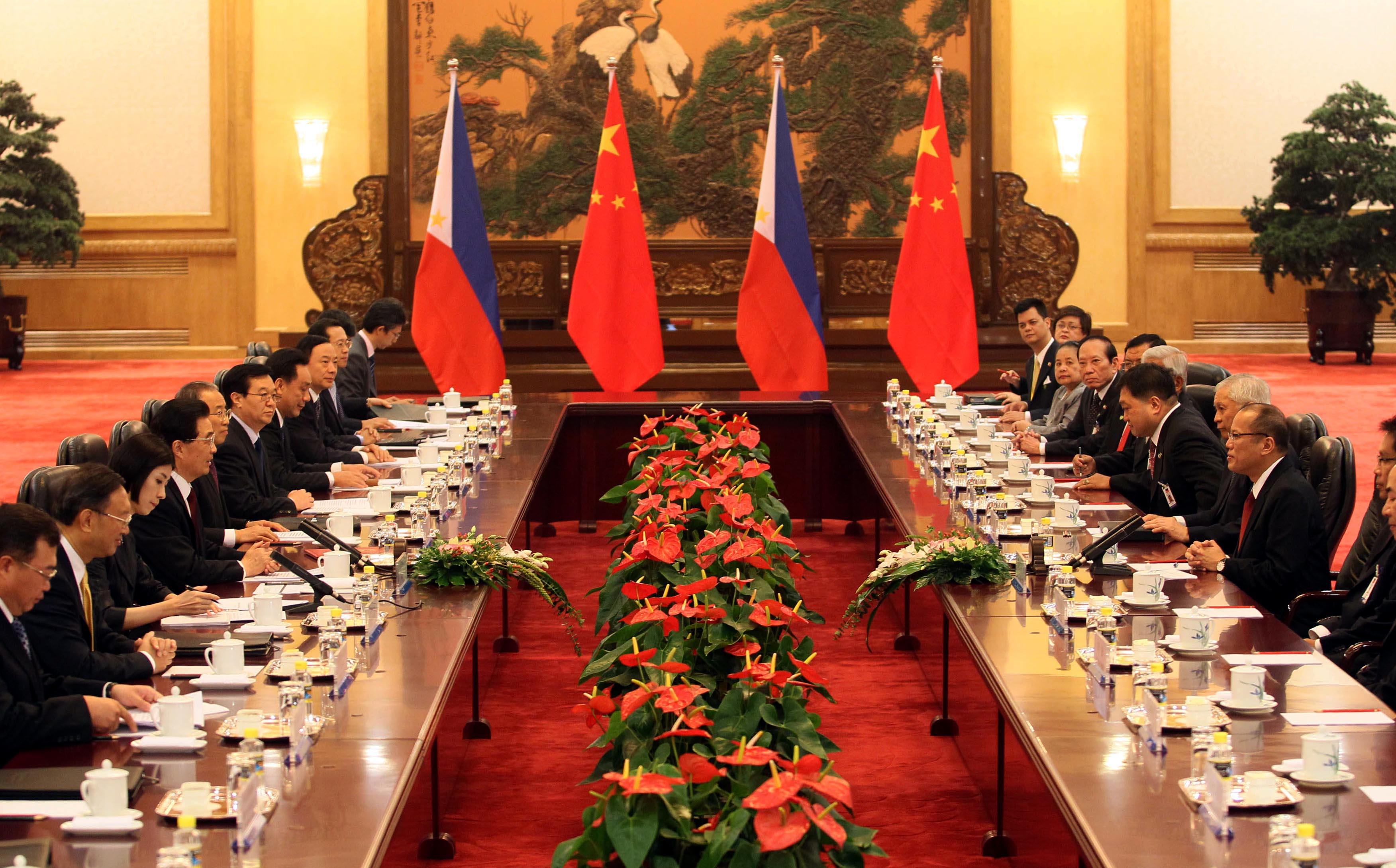 Bilateral Meeting between the People's Republic of China and the Philippines at the East Hall, Great Hall of the People.